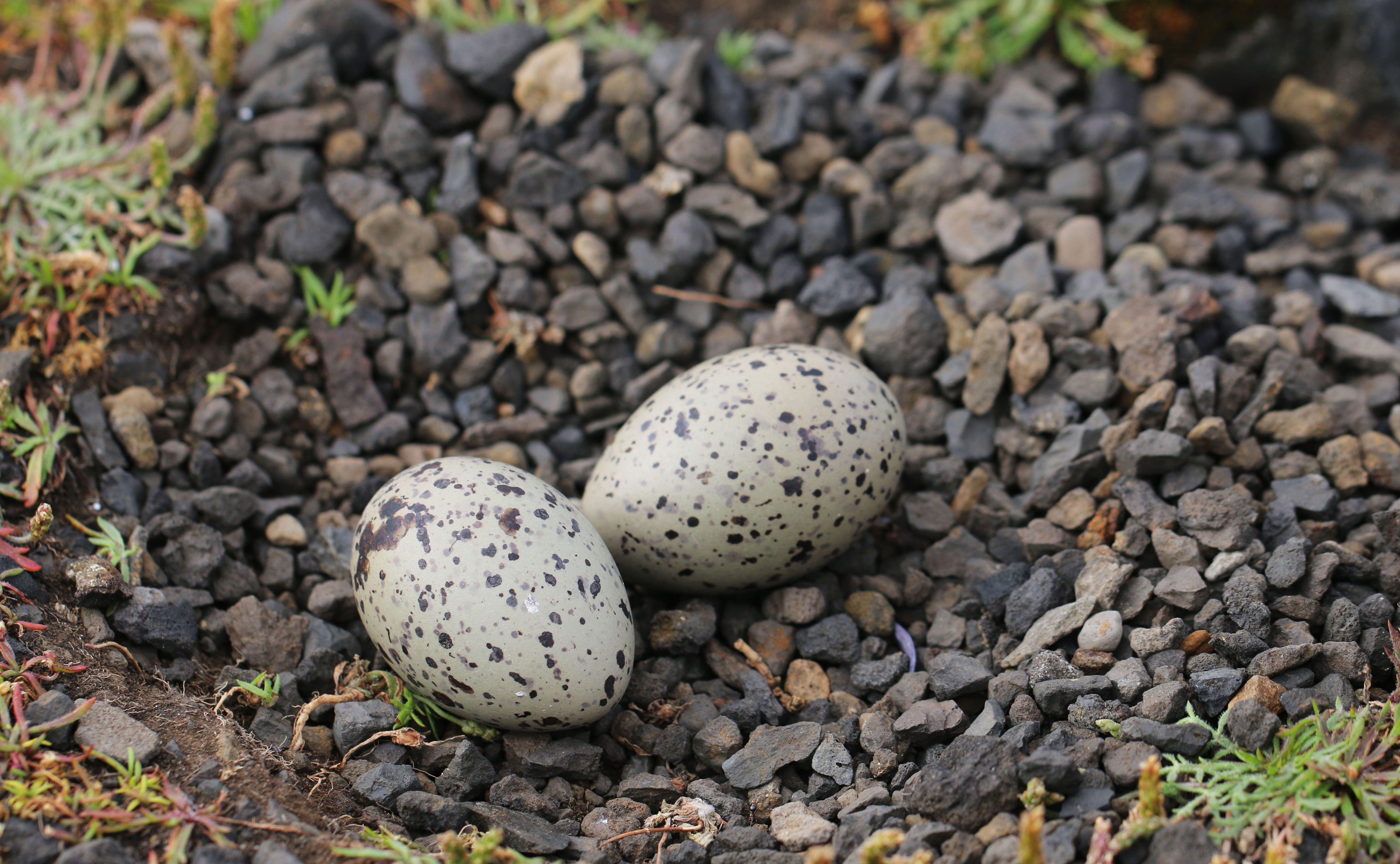 Black Oystercatcher nest You are free to use this image with the following photo credit: Peter Pearsall/U.S. Fish and Wildlife Service